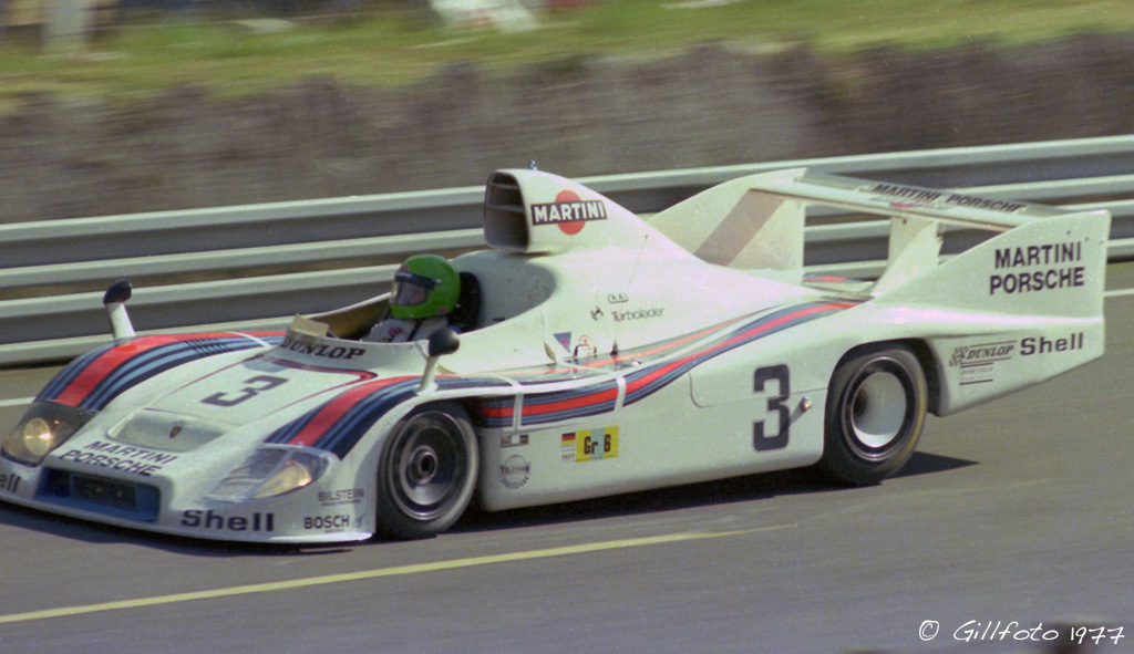 Henri Pescarolo (F)/Jacky Ickx (B) Porsche 936/77 #002, 24 Heures du Mans - Circuit de la Sarthe, Le Mans (F)